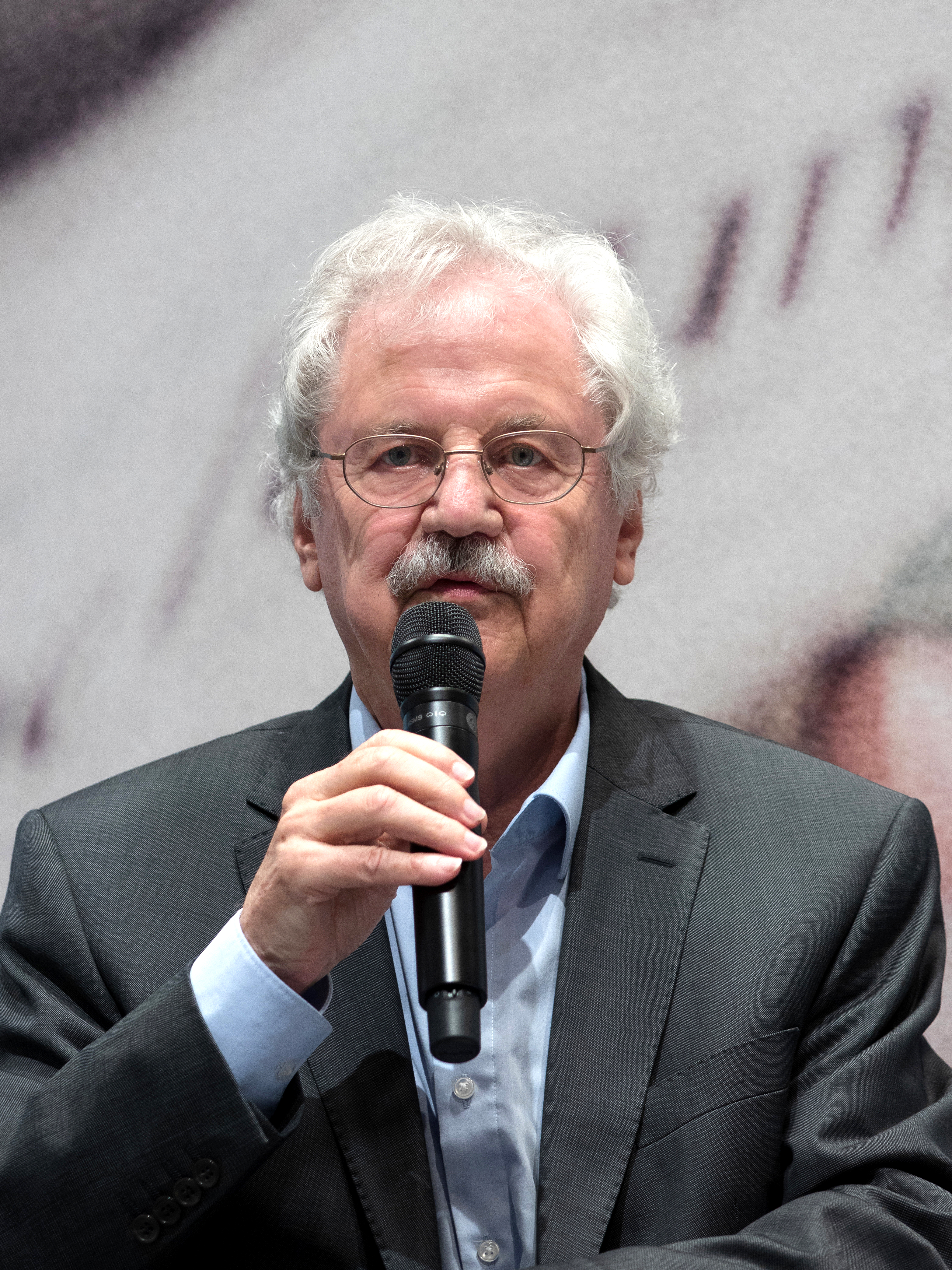 German children's literature writer Paul Maar at the Frankfurt Book Fair 2018.